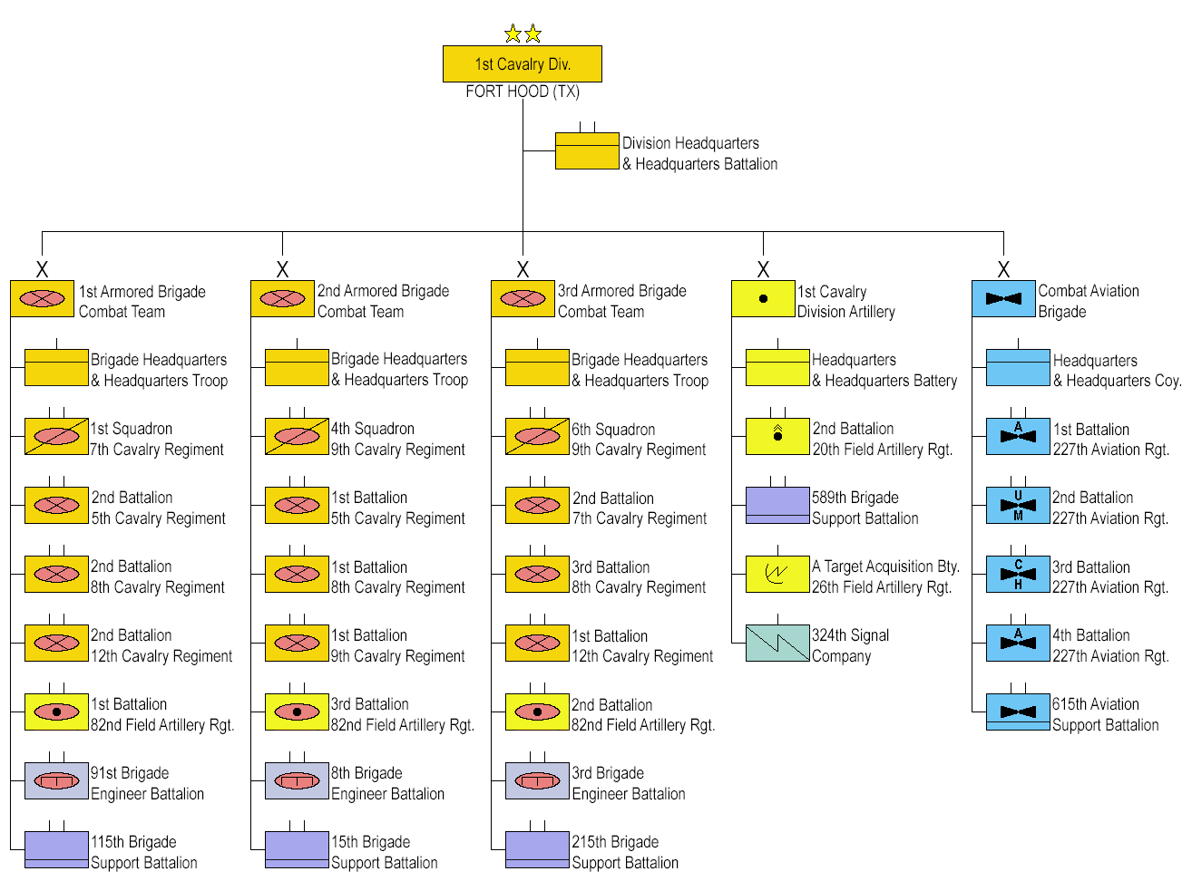 US Army 1st Cavalry Division Structure after the reorganization of December 2013